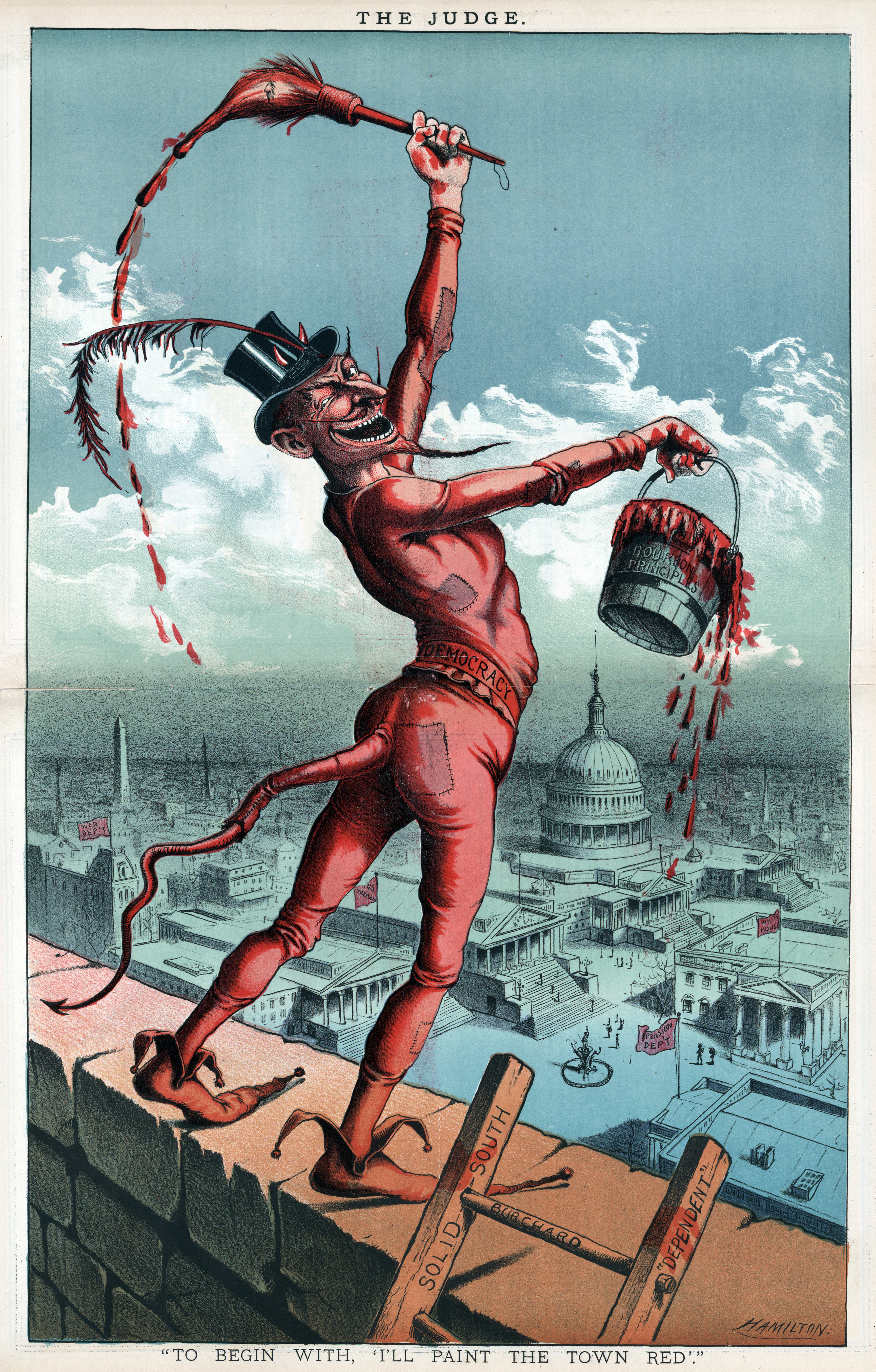 "To begin with, 'I'll paint the town red", by Grant E. Hamilton, The Judge vol. 7, 31 January 1885. Cartoon from the magazine "The Judge". "Democracy" is portrayed as the devil holding a bucket labeled "Bourbon Principles" and a paintbrush (in which appears a profile caricature of Grover Cleveland), both dripping red paint with which he plans to "paint the town"; he is standing on a wall overlooking a view of Washington, D.C. showing mostly government buildings, some already flying red flags: "Pension Dep't", "White House", "U.S. Treasur", "War Dep't".